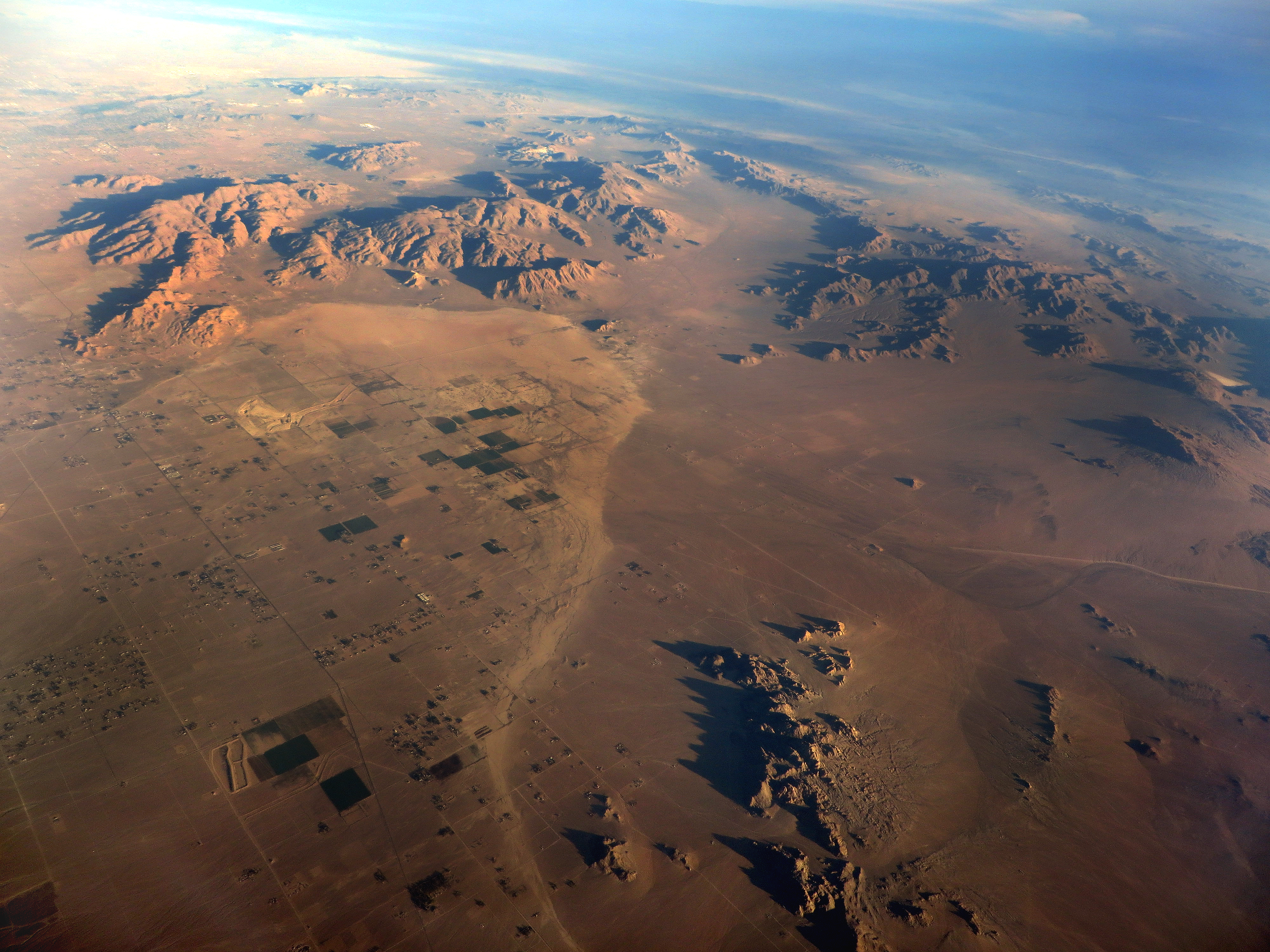 Lucerne Valley is a census-designated place located in the Mojave Desert of western San Bernardino County, California. It lies east of the Victor Valley, whose population nexus includes Victorville, Apple Valley, and Hesperia. The population was 5,811 at the 2010 census. Lucerne Valley is located 19 miles east of Apple Valley and 20 miles downhill north of Big Bear in the southern reaches of the Mojave Desert. It is surrounded by several mountain ranges which include the Granite mountain range, the Ord mountain range, and the San Bernardino mountain range. The heart of Lucerne Valley is located on the crossroads of State Route 247 (Old Woman Springs Road / Barstow Road) and State Route 18. Yucca Valley lies 45 miles east via Route 247/Old Woman Springs Road.